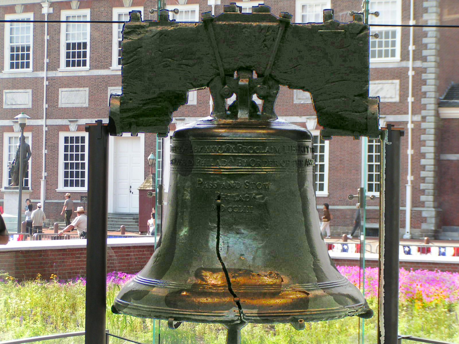 The Liberty Bell, Philadelphia